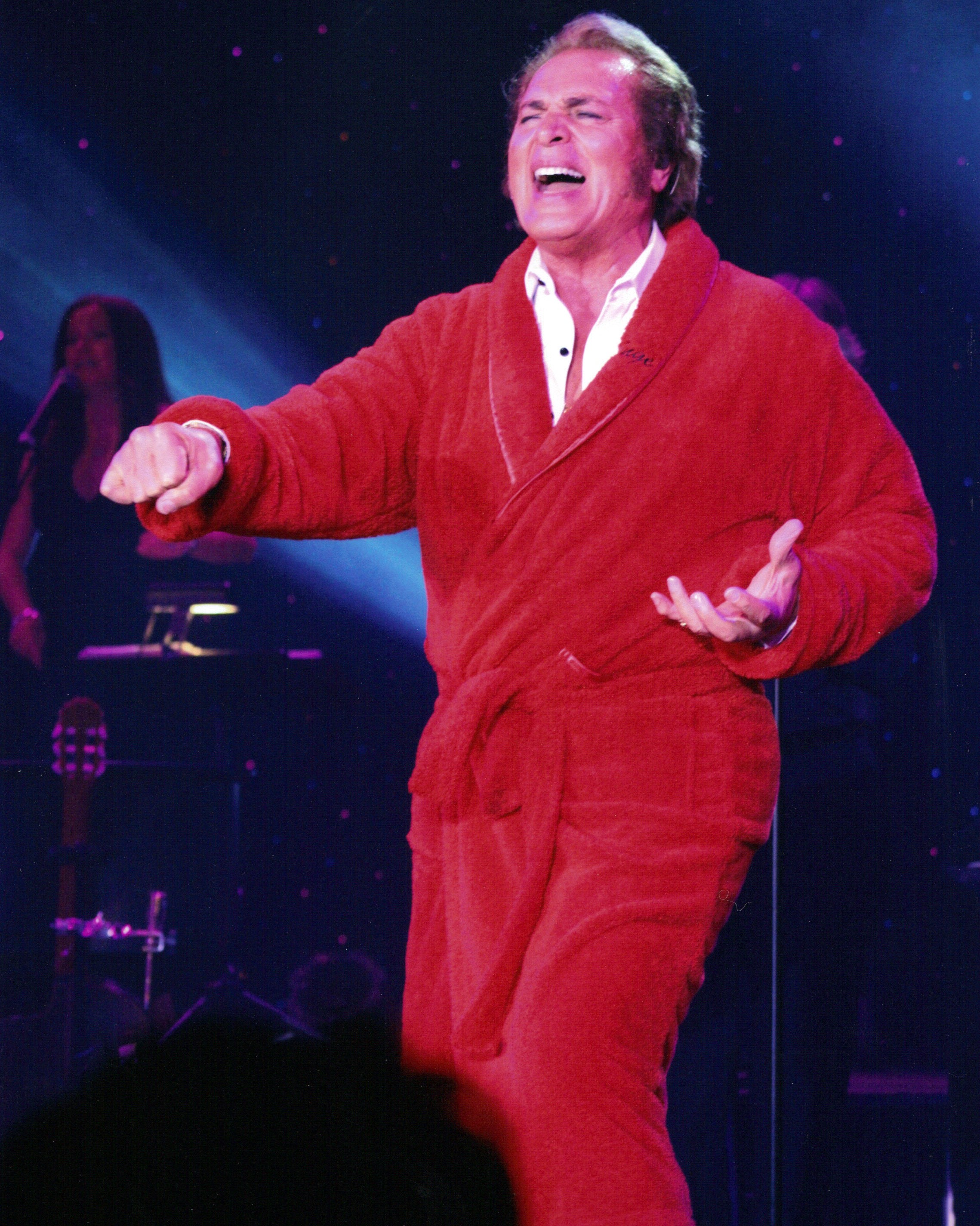 Closing Night at the Orleans Showroom,Las Vegas,NV 10-31-2008